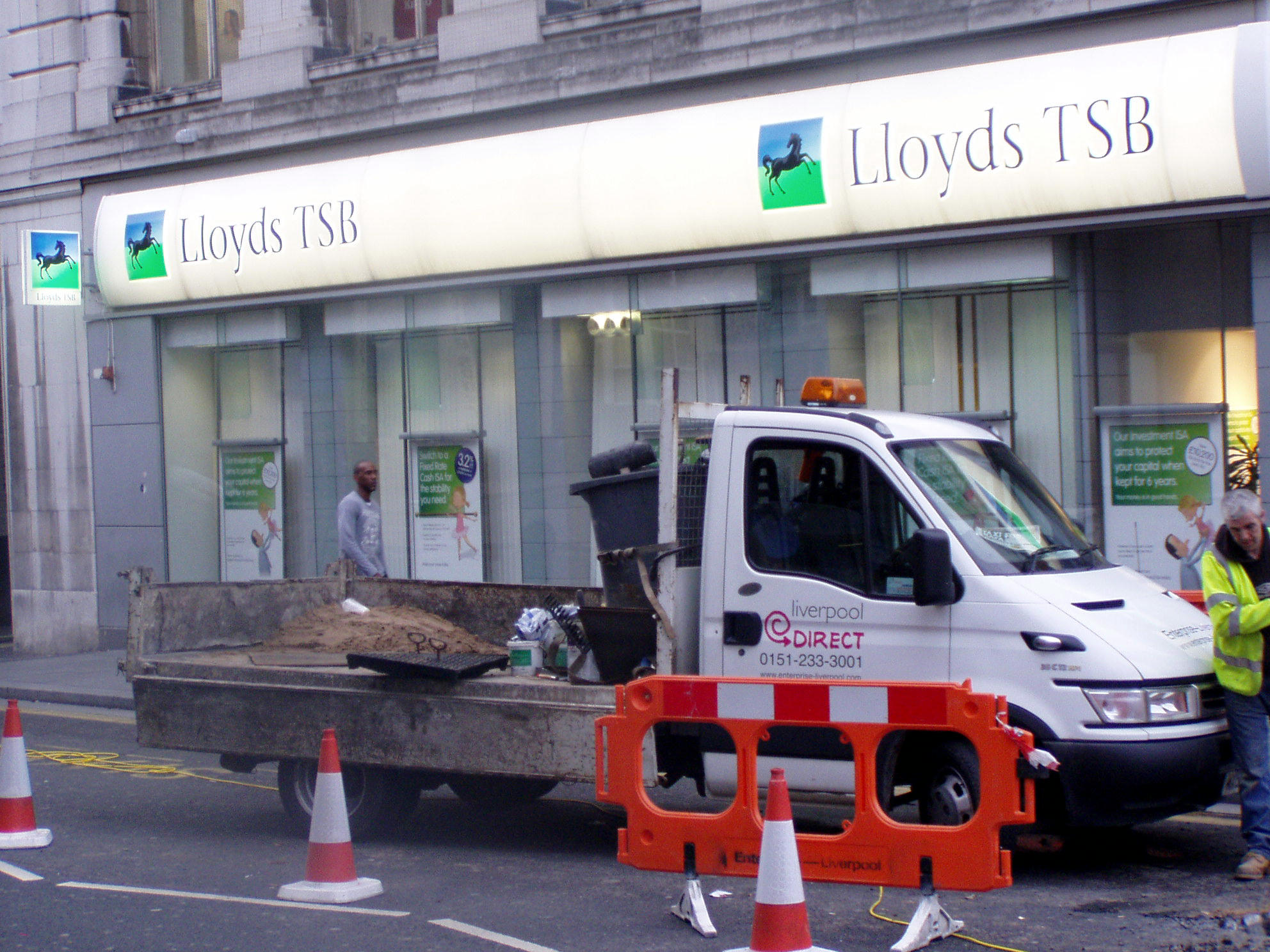 Enterprise Liverpool lorry on Hanover street. With a liverpool direct contact on the side.